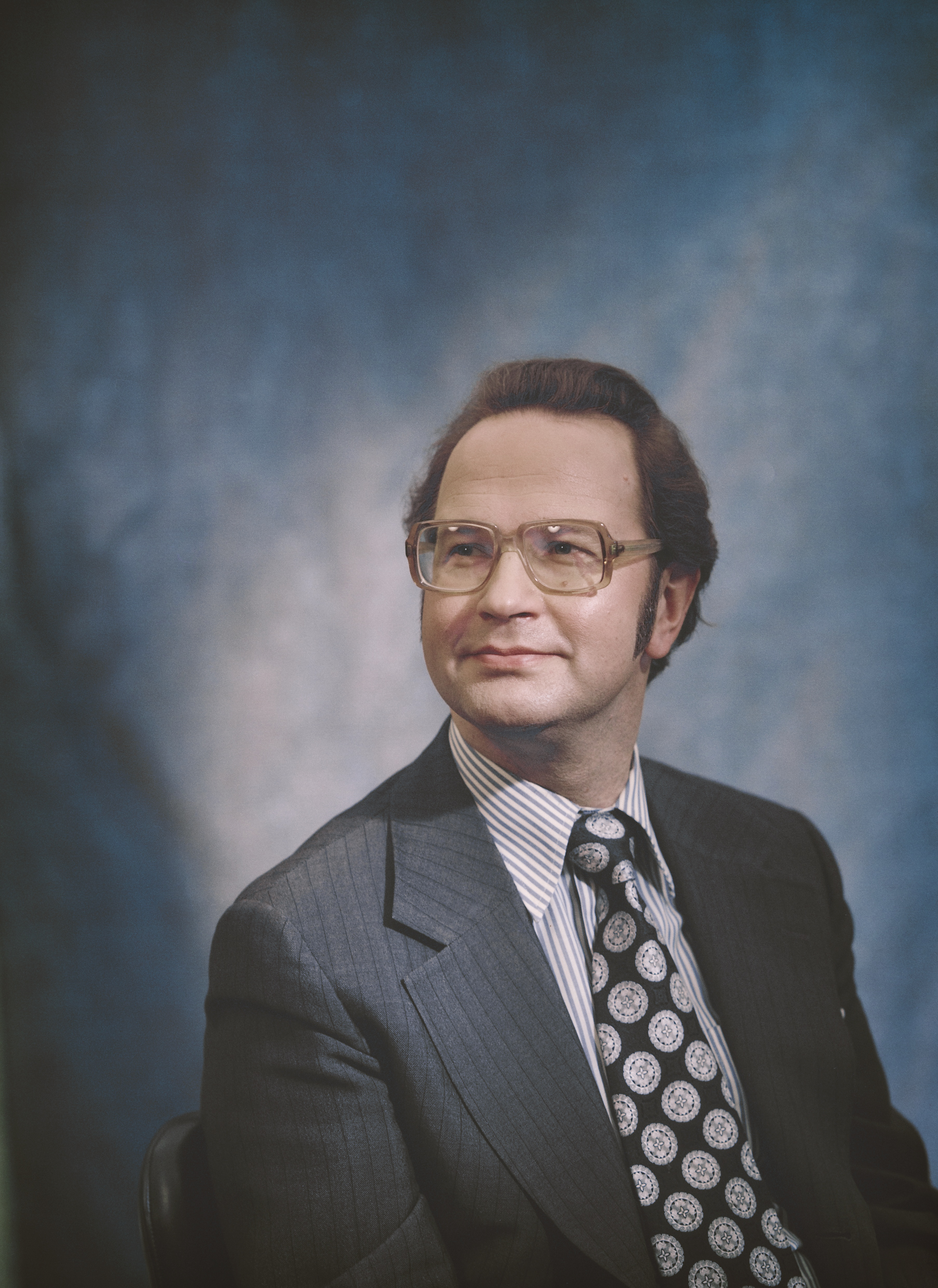 Photograph of the Finnish business executive Kari Kairamo (1932–1988).